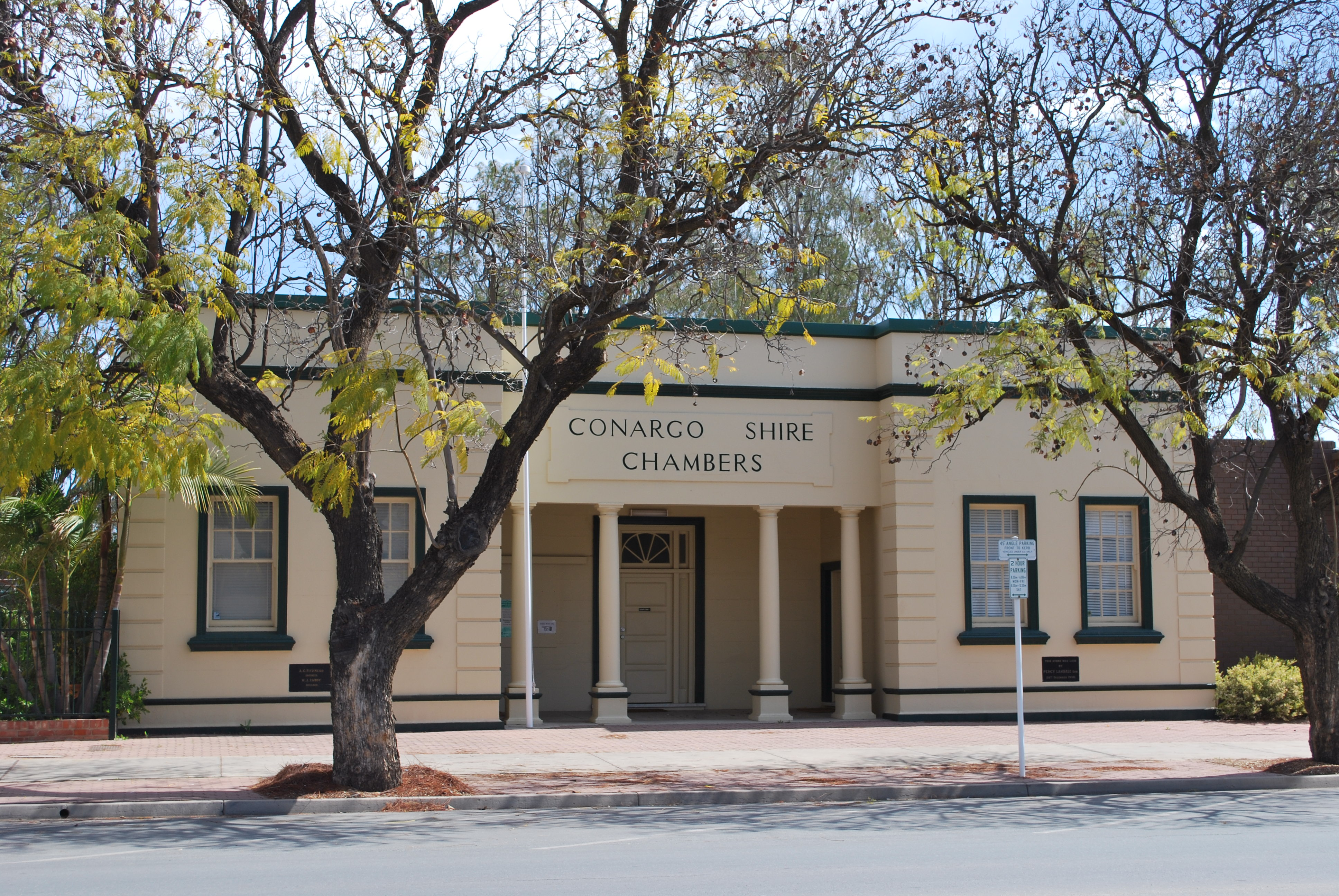 The Conargo Shire Council chambers in Deniliquin, New South Wales